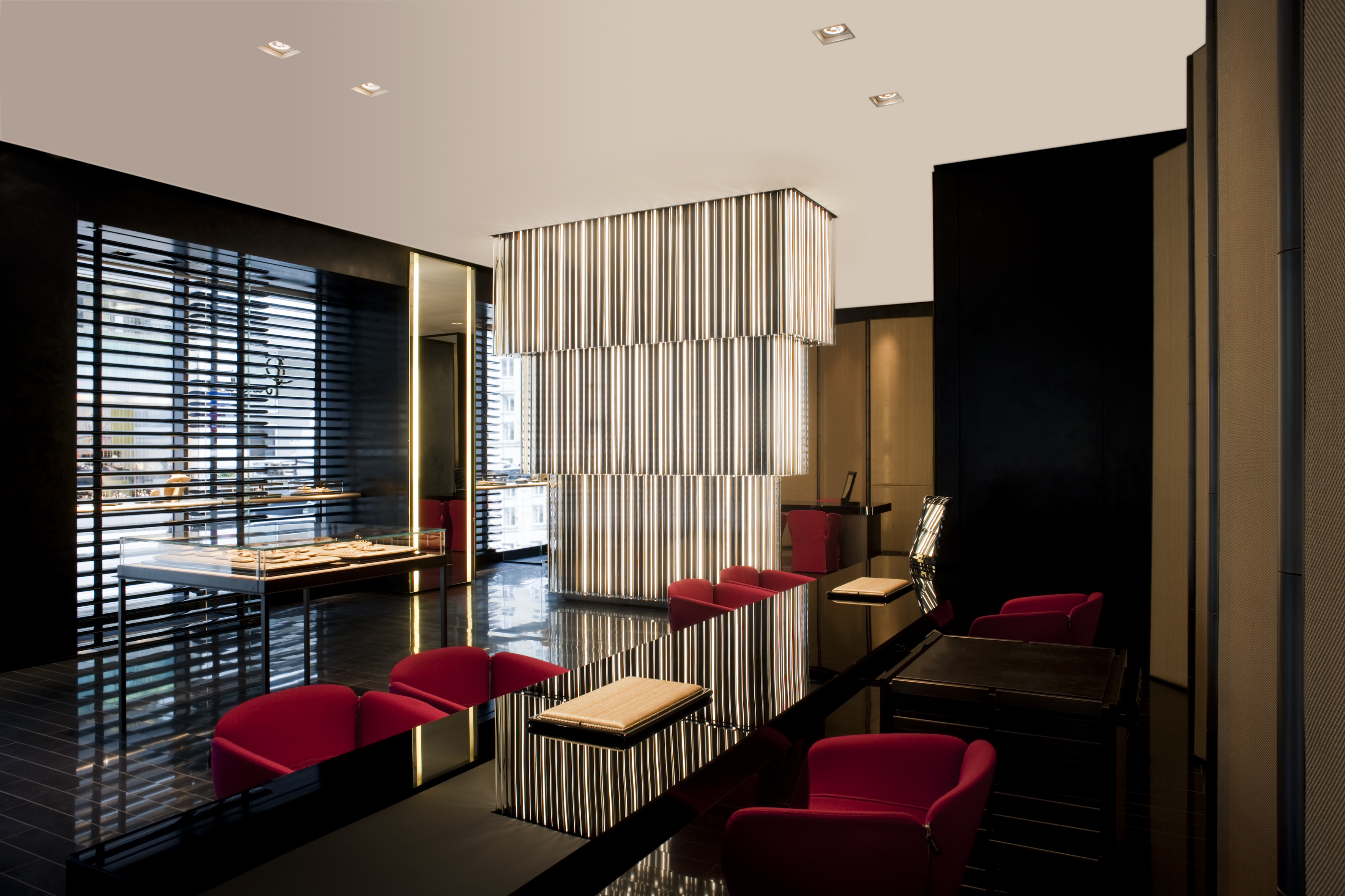 the shooting presents some Pomellato Boutique interiors